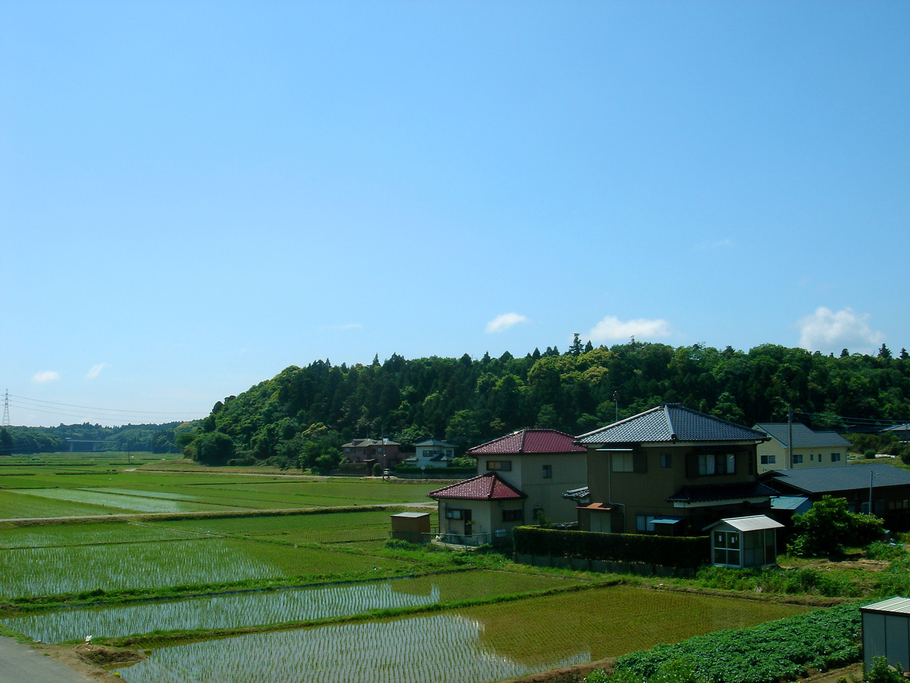 Country side (inaka in Japanese) and rice fields in Sawara, Chiba.